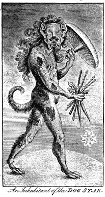 THE TRAVELS AND SURPRISING ADVENTURES OF Baron Munchausen ILLUSTRATED WITH THIRTY-SEVEN CURIOUS ENGRAVINGS FROM THE BARON'S OWN DESIGNS AND FIVE ILLUSTRATIONS By G. CRUIKSHANK By BARON MUNCHAUSEN. London: Printed for C. & G. Kearsley, Fleet Street, 1793.""